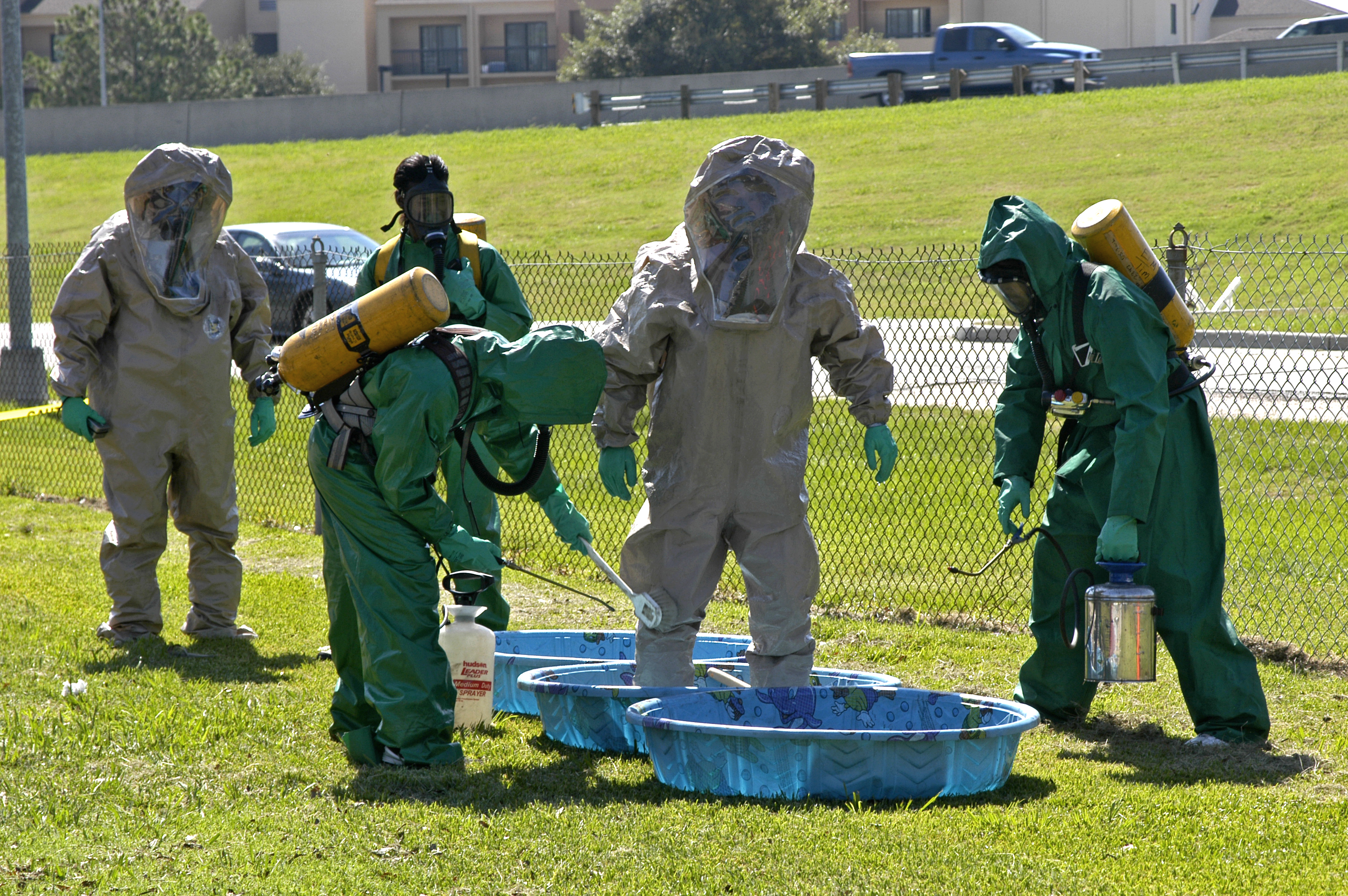 Members of an area Emergency Medical Technician team in Baton Rouge, Louisiana undergo training required for certification as rescue (grey suits) and decontamination (green suits) unit responders to hazardous material and toxic contamination situations.